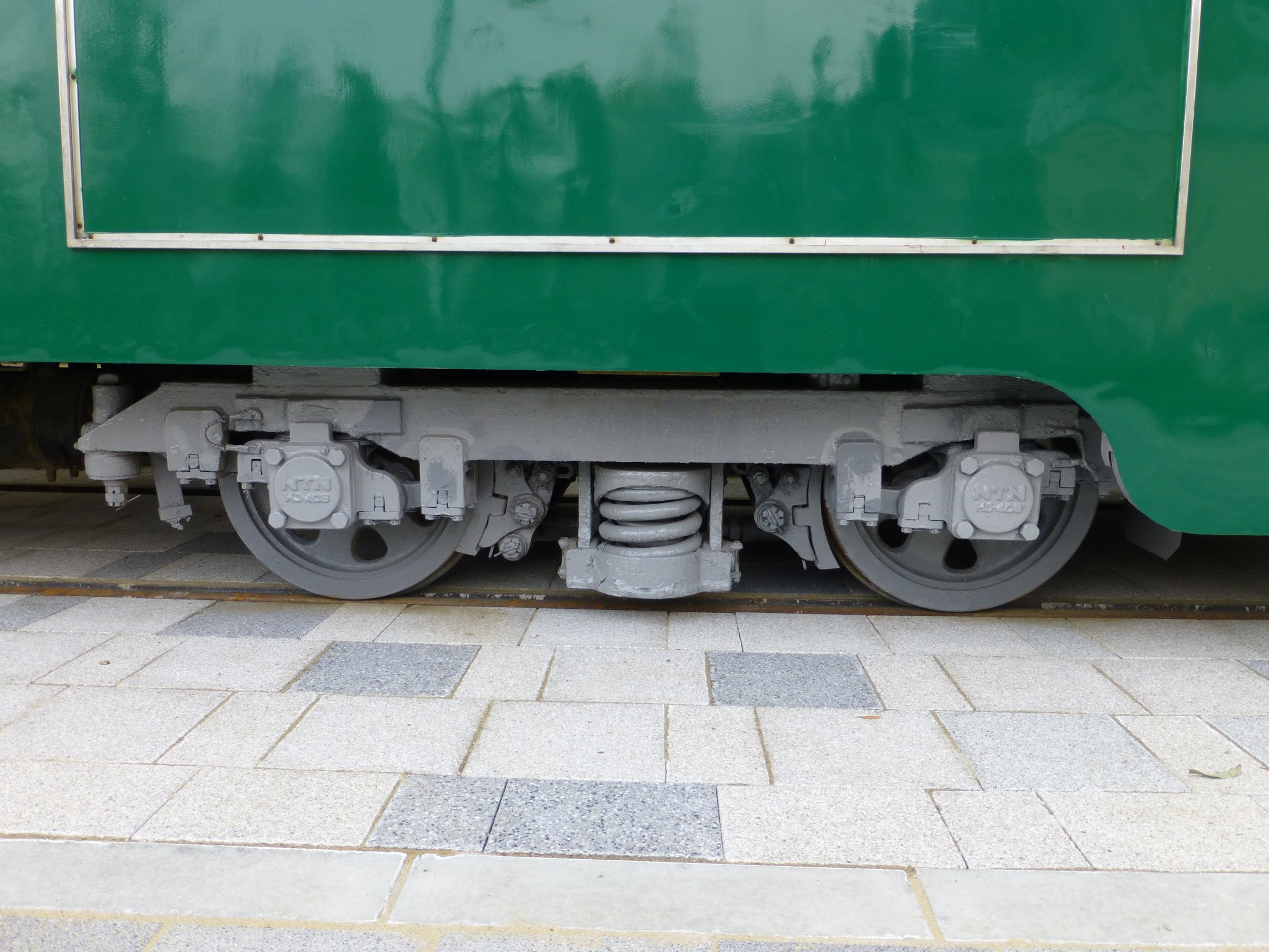 MD201 bogie truck manufactured by Mitsubishi Heavy Industries, Kyoto Municipal Tramway 890 of type 800, preserved at Tramway Square in Umekoji Park.